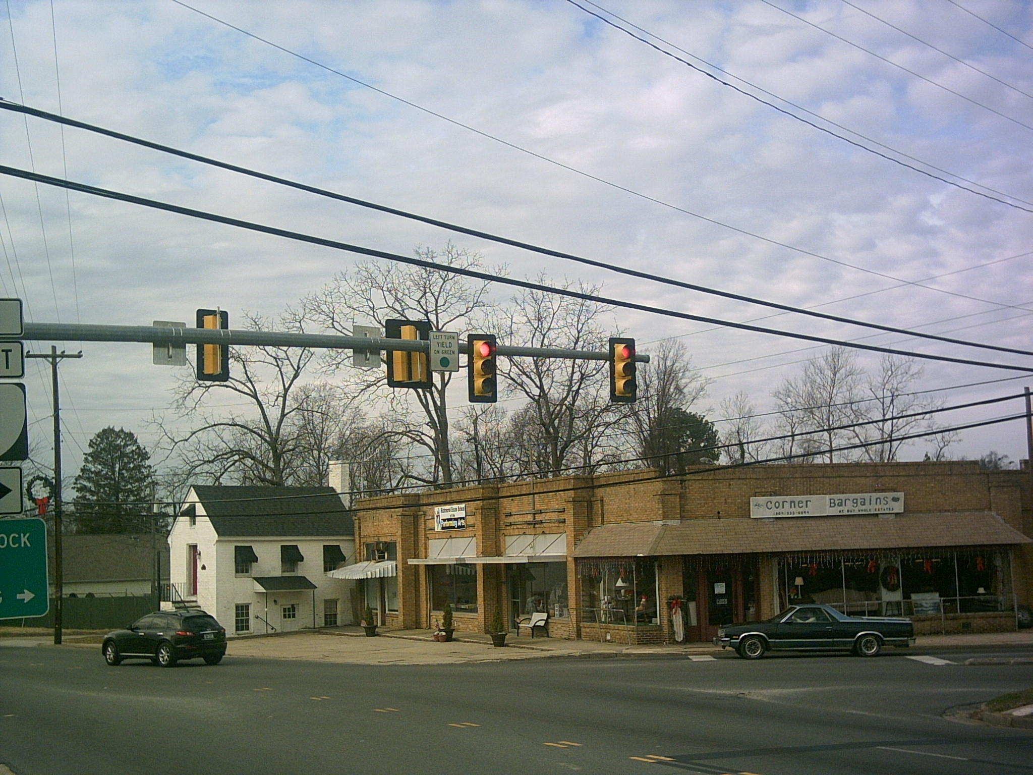 Central Warsaw, Virginia